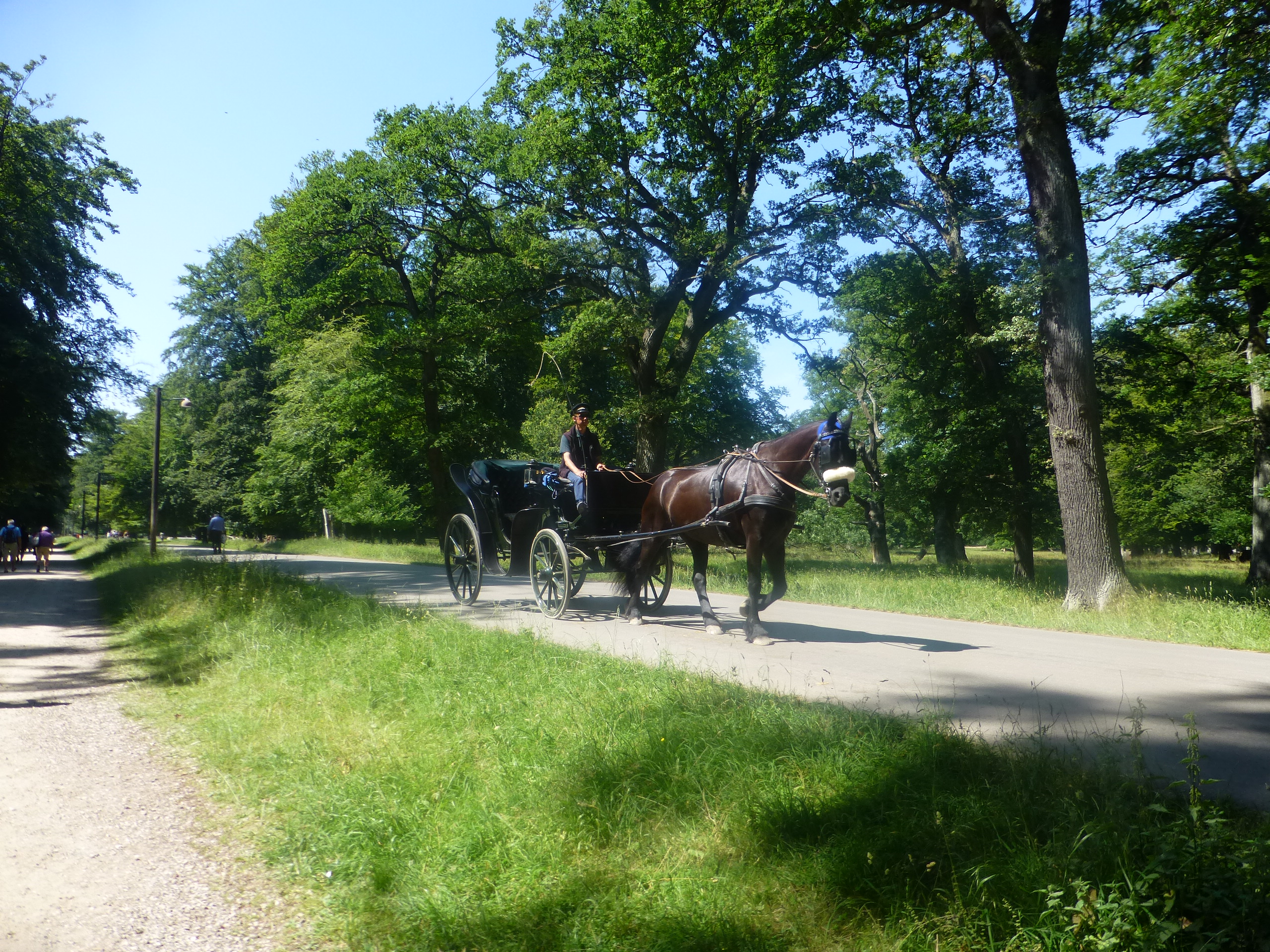 A hackney carriage (Danish: kapervogn) in Dyrehaven north of Copenhagen.